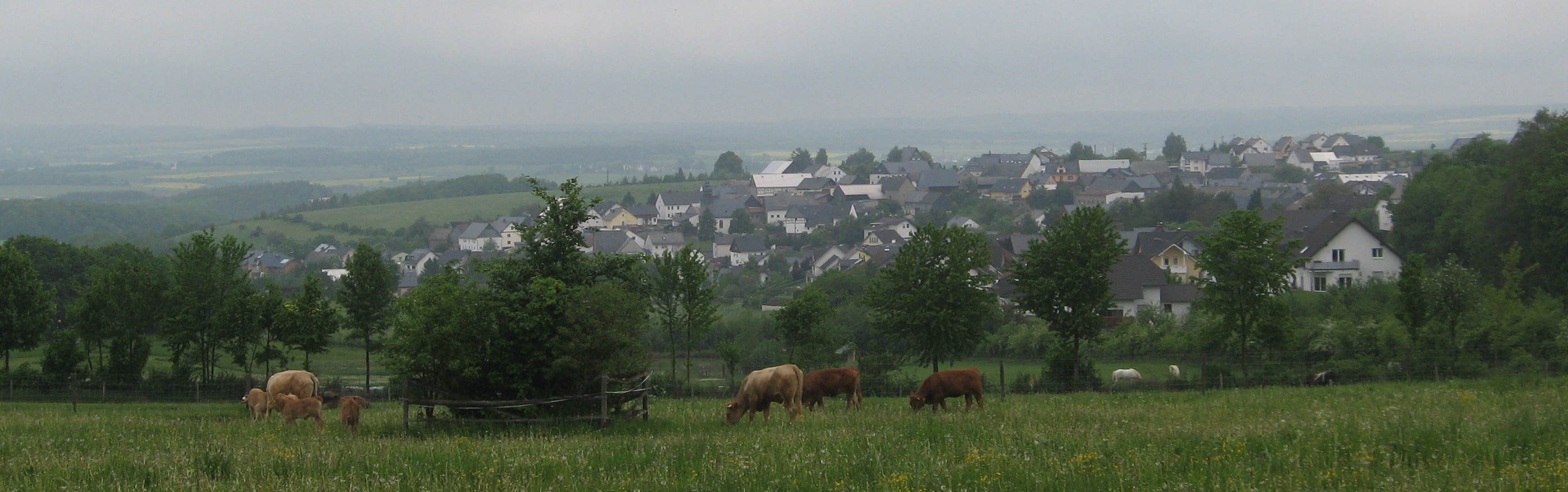 village Holzbach in the Hunsrück landscape, Germany.